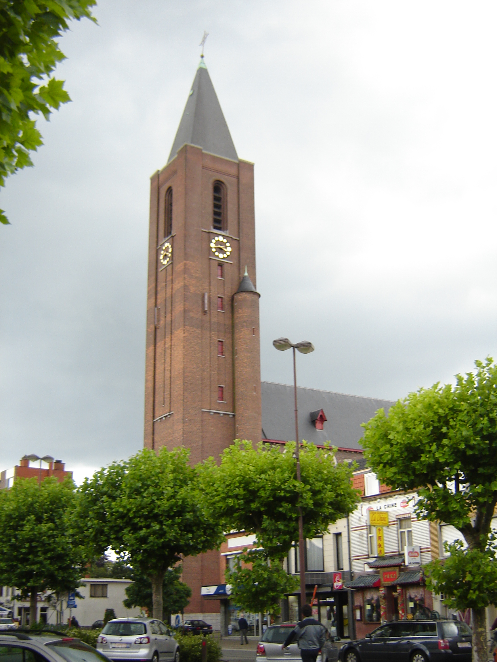 Church of Saint Lawrence in Zelzate, East Flanders, Belgium.